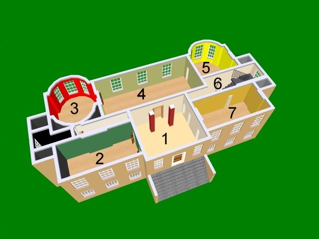 (Plan drawn by uploader. Very simplified plan of Buscot Park, Oxon, UK. Not to scale and intended for illustrative purposes of a Wikipedia article only; in no way is this intended to be a faithful plan or guide.)